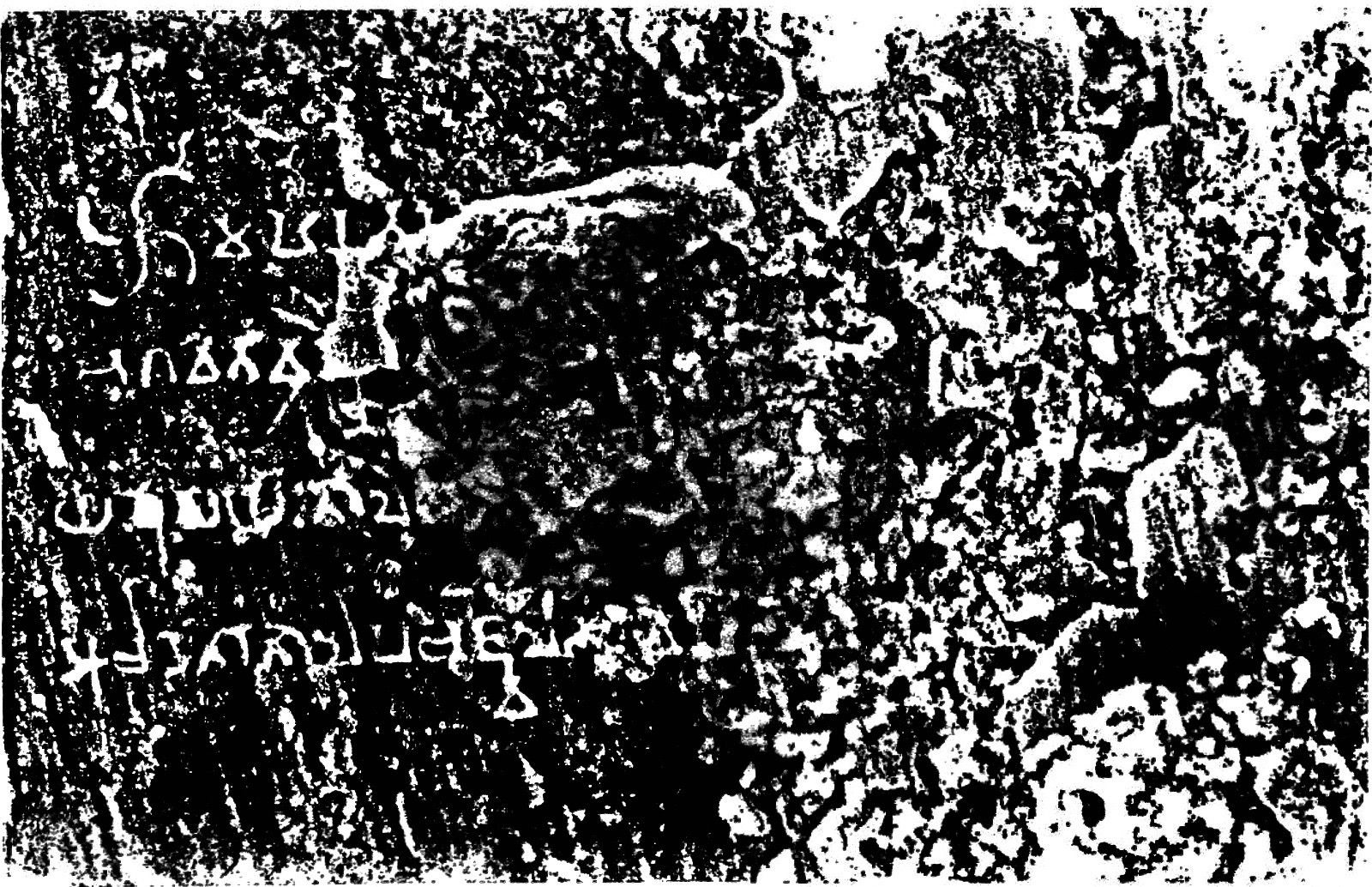 The inscription is in Sanskrit, Brahmi script, and from the early decades of the common era. It mentions the dedication of a stone temple, community hall, and slabs (probably memorial stones) to five Vrishni heroes of Vaishnavism. For discussion of the inscription, please see Doris Srinivasan (1997), Many Heads, Arms, and Eyes: Origin, Meaning, and Form of Multiplicity in Indian Art, BRILL Academic